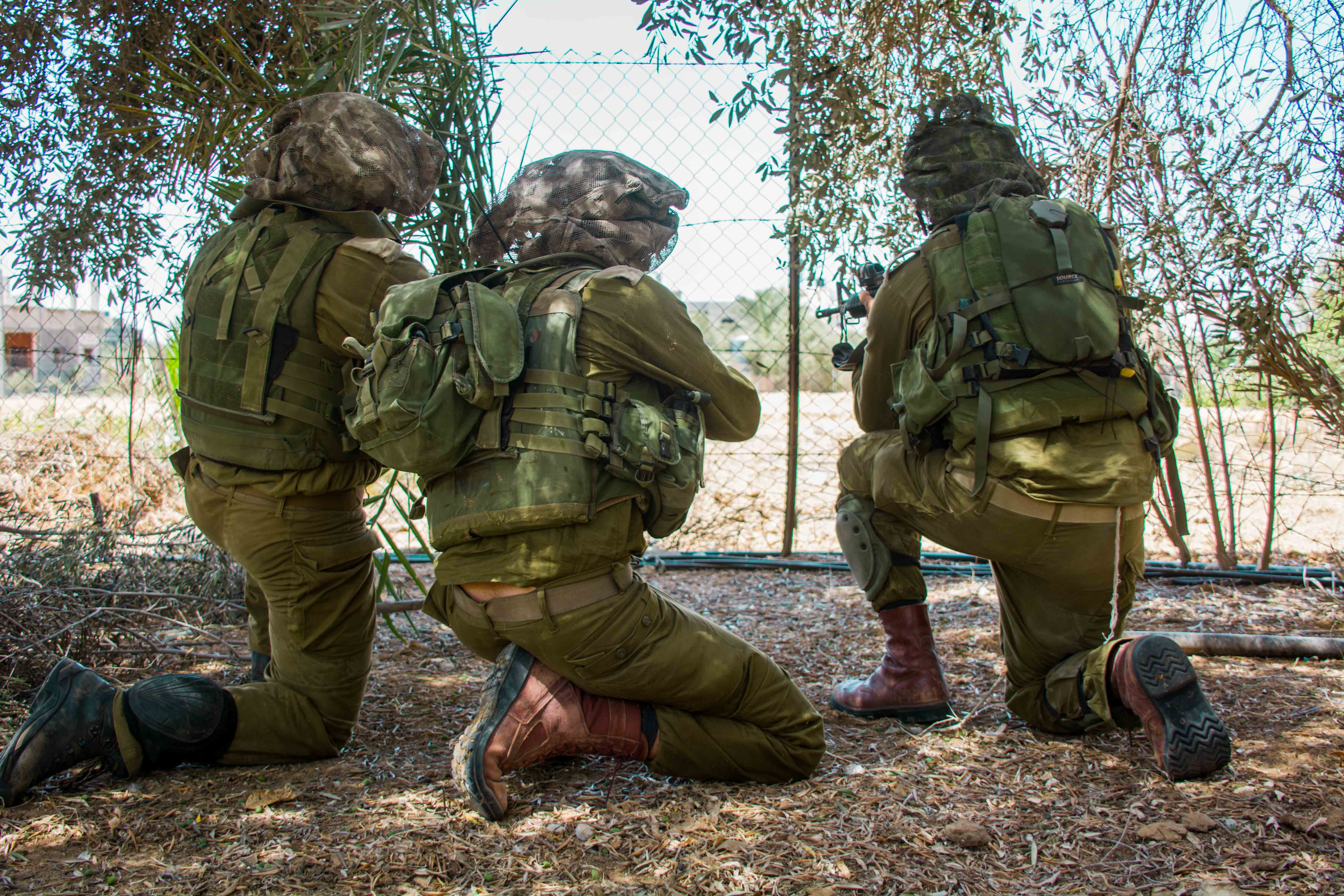 IDF Paratroopers Operate in Gaza during Operation Protective Edge